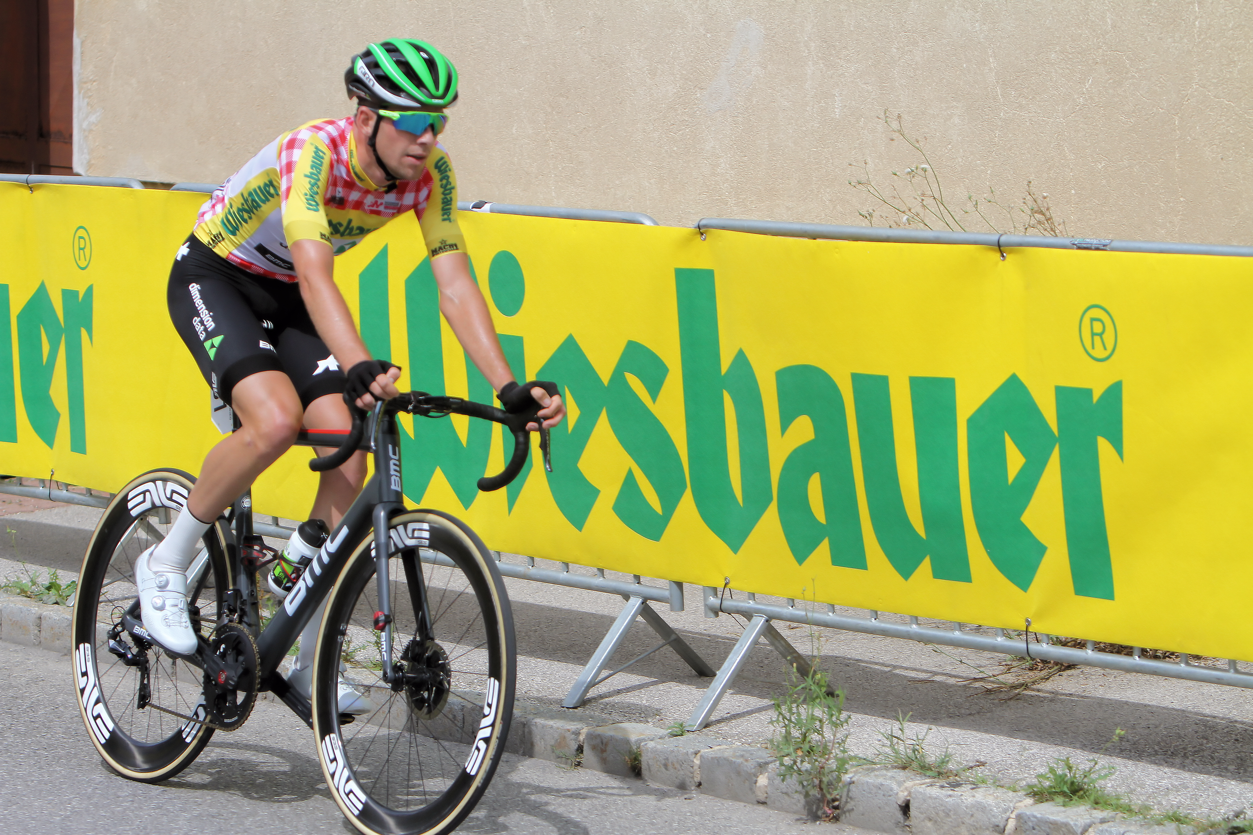 2019 Tour of Austria 2nd stage from Zwettl to Wiener Neustadt at 2019-07-08. – The photo shows. Scott Davies